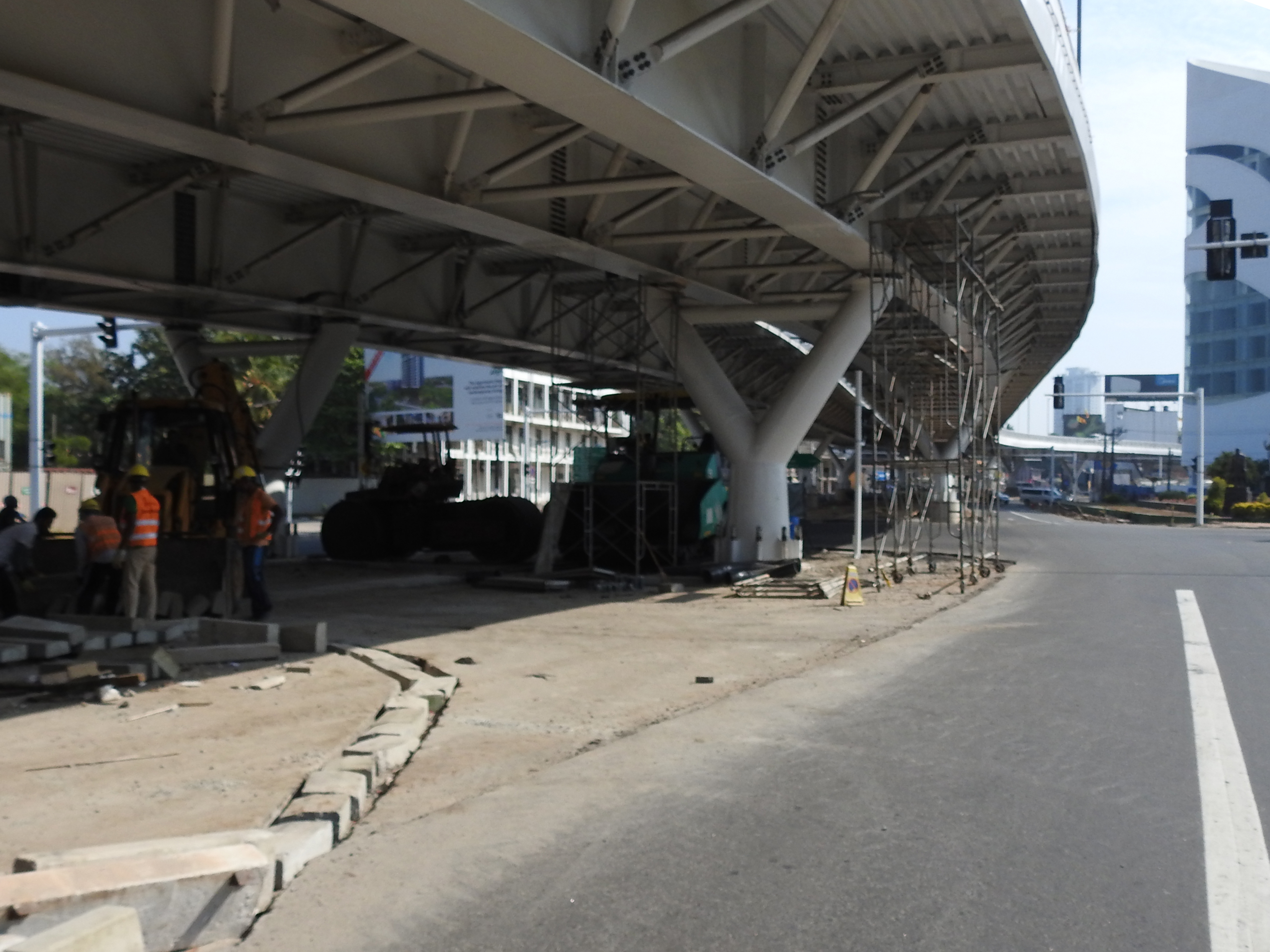 Rajagiriya flyover photographed during the independence day of Sri Lanka in 2018.